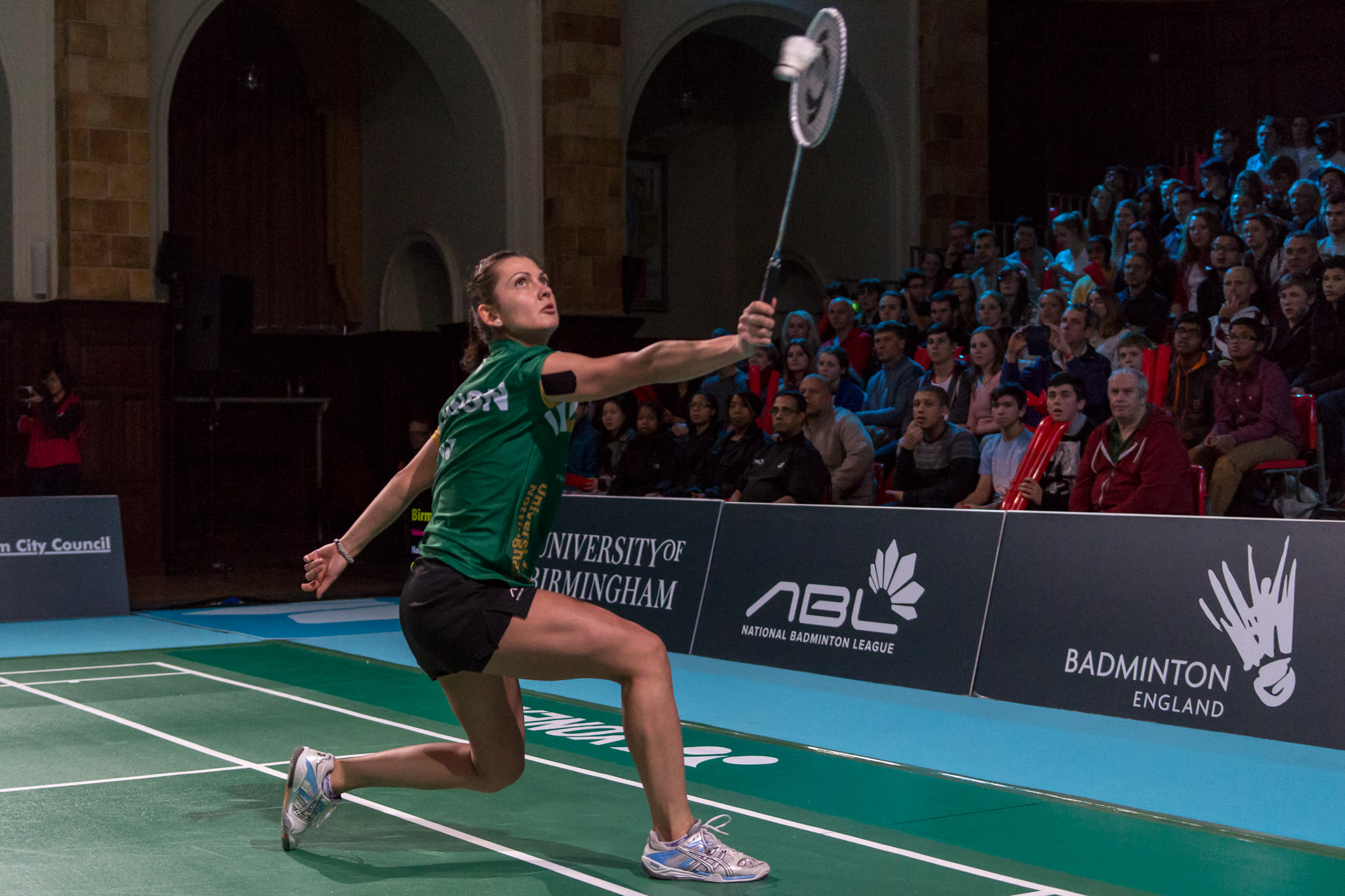 NBL Badminton player Olga Konon during a match in the Great Hall, University of Birmingham